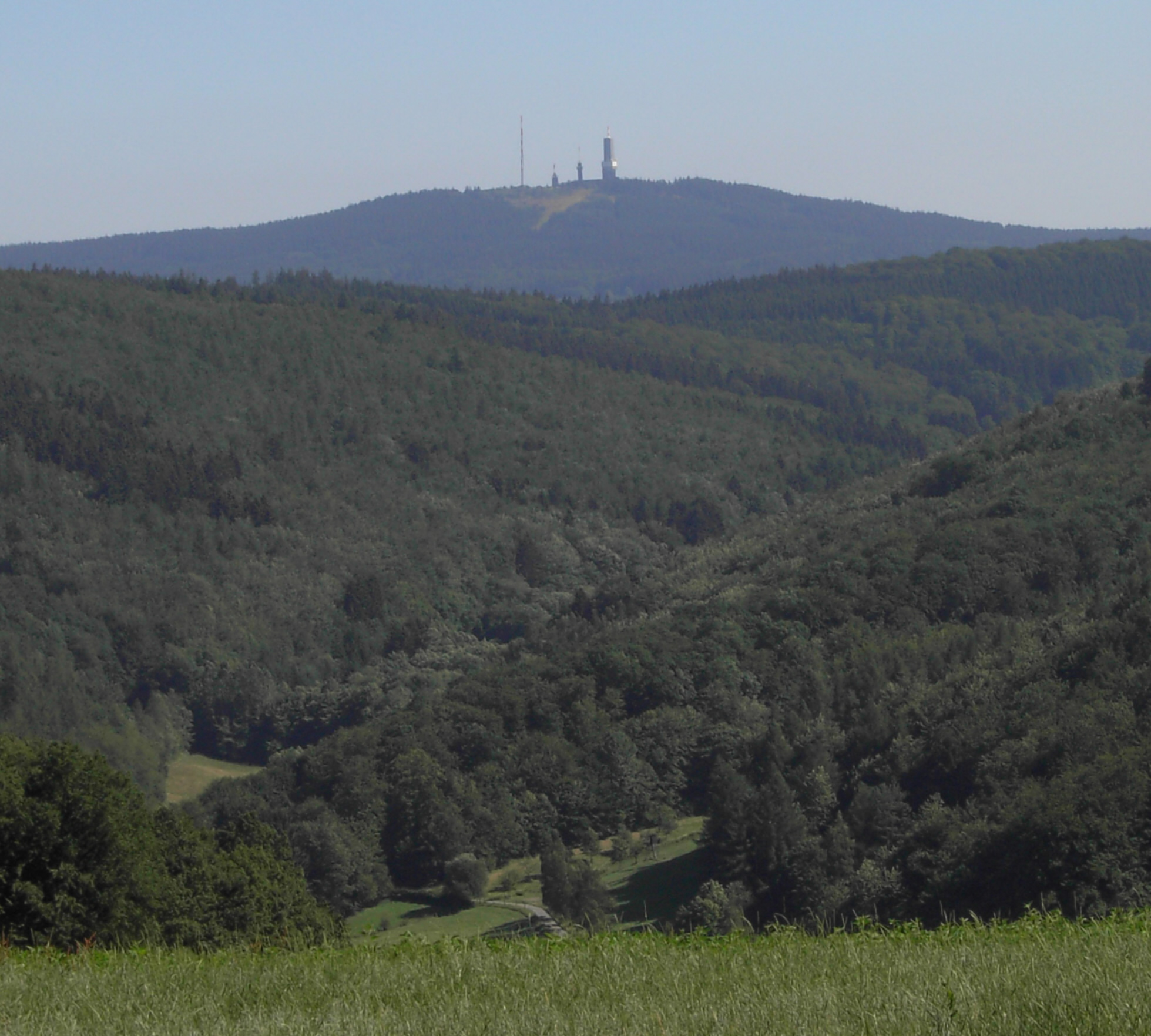 The Große Feldberg (Great Feldberg, 880m) from the Hintertaunus. View threw Niedgesbachvalley